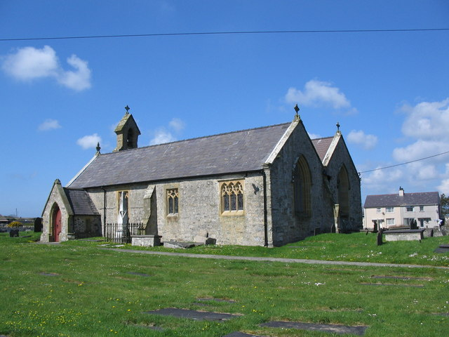 St. Beuno's Church, Aberffraw A view looking southwest to the church of St. Beuno at Aberffraw.